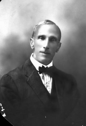 Mr Whitcombe, A.R.I.B.A., Associate of the Royal Institute of British Architects, Chief Instructor - Architecture, at the Central Technical College, Brisbane.